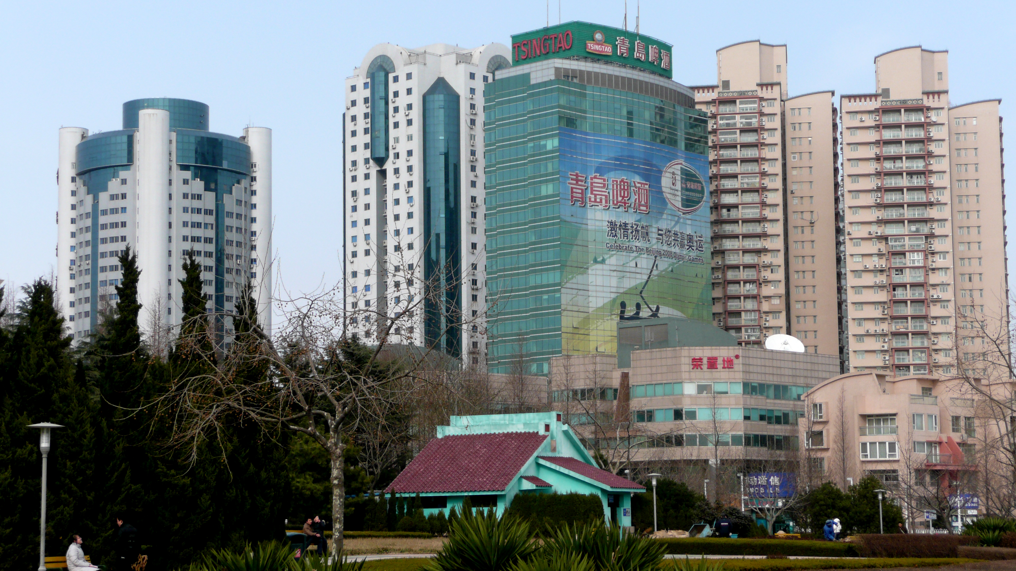 Main building of Tsingtao beer in the new centre of Qingdao